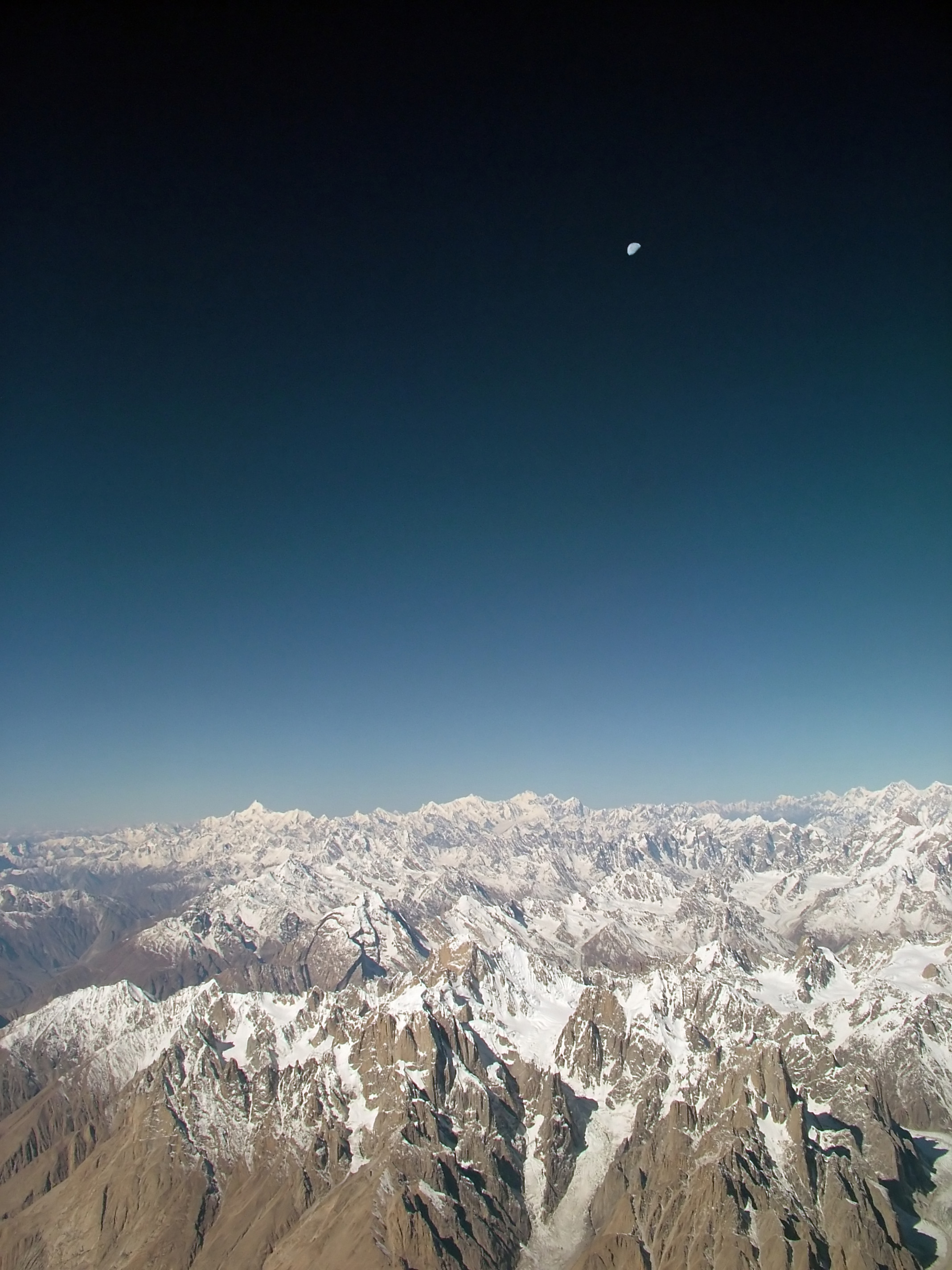 View of the moon over Karakoram Range in Pakistan. Peaks in the background (horizon), from left to right: Haramosh (left quarter), four peaks in the centre: Malubiting, then a high and long saddle apparently leading to (but in fact there's no connection) the highest peak - Rakaposhi, then Diran and Spantik. On the very right there are the peaks of the Hispar Muztagh, Kunyang Chhish is probably second from the right. Below them there is the Latok-group. Picture taken from about the end of the Baltoro glacier, looking west.